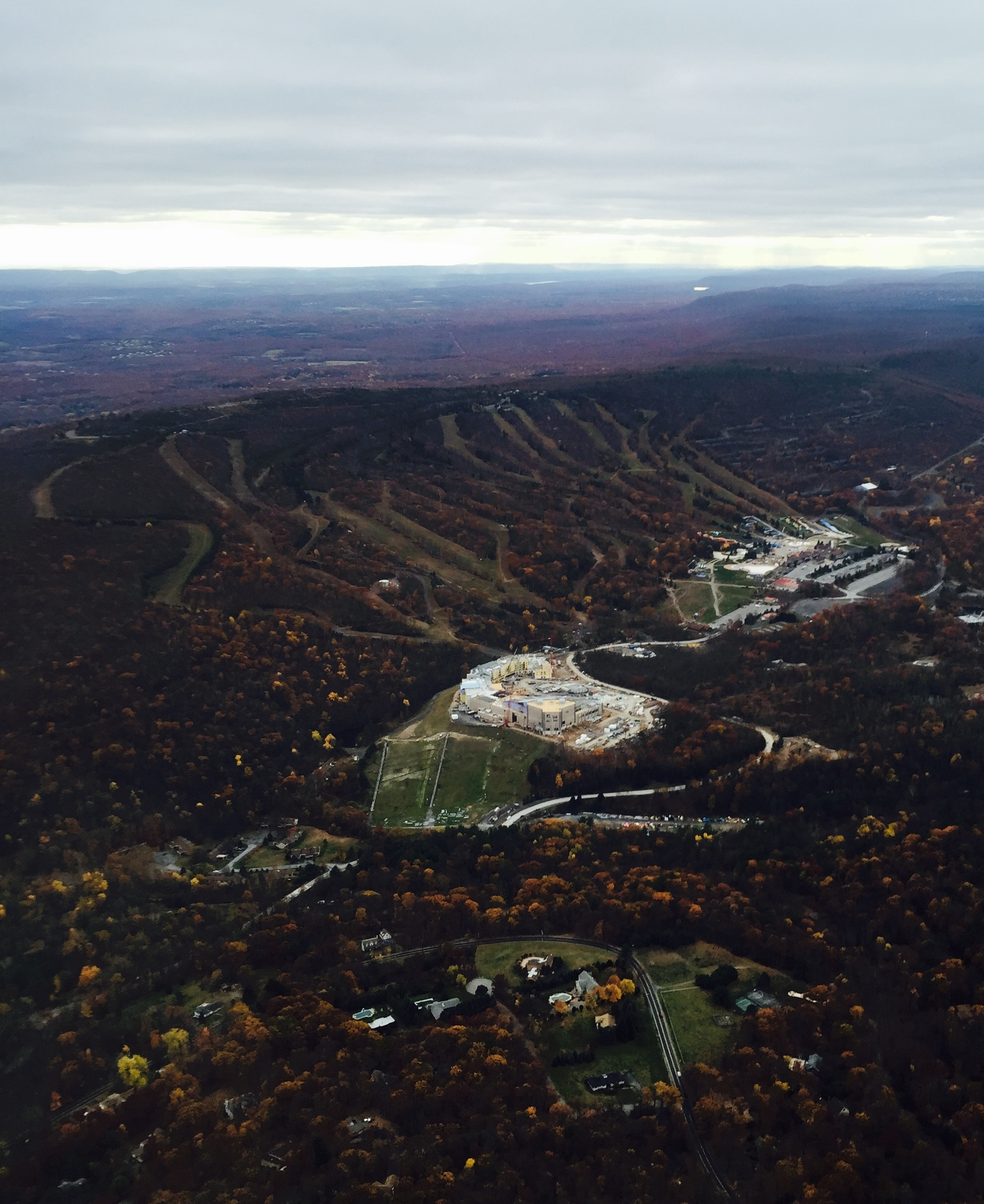 Aerial View of Camelback Mountain Resort.